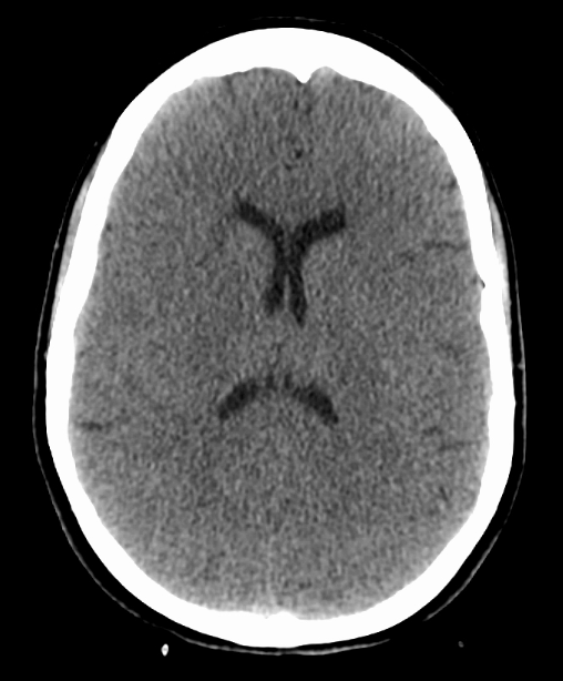 Anoxic brain injury following a hanging. Note the loss of grey white matter differentiation and small ventricles due to brain swelling.